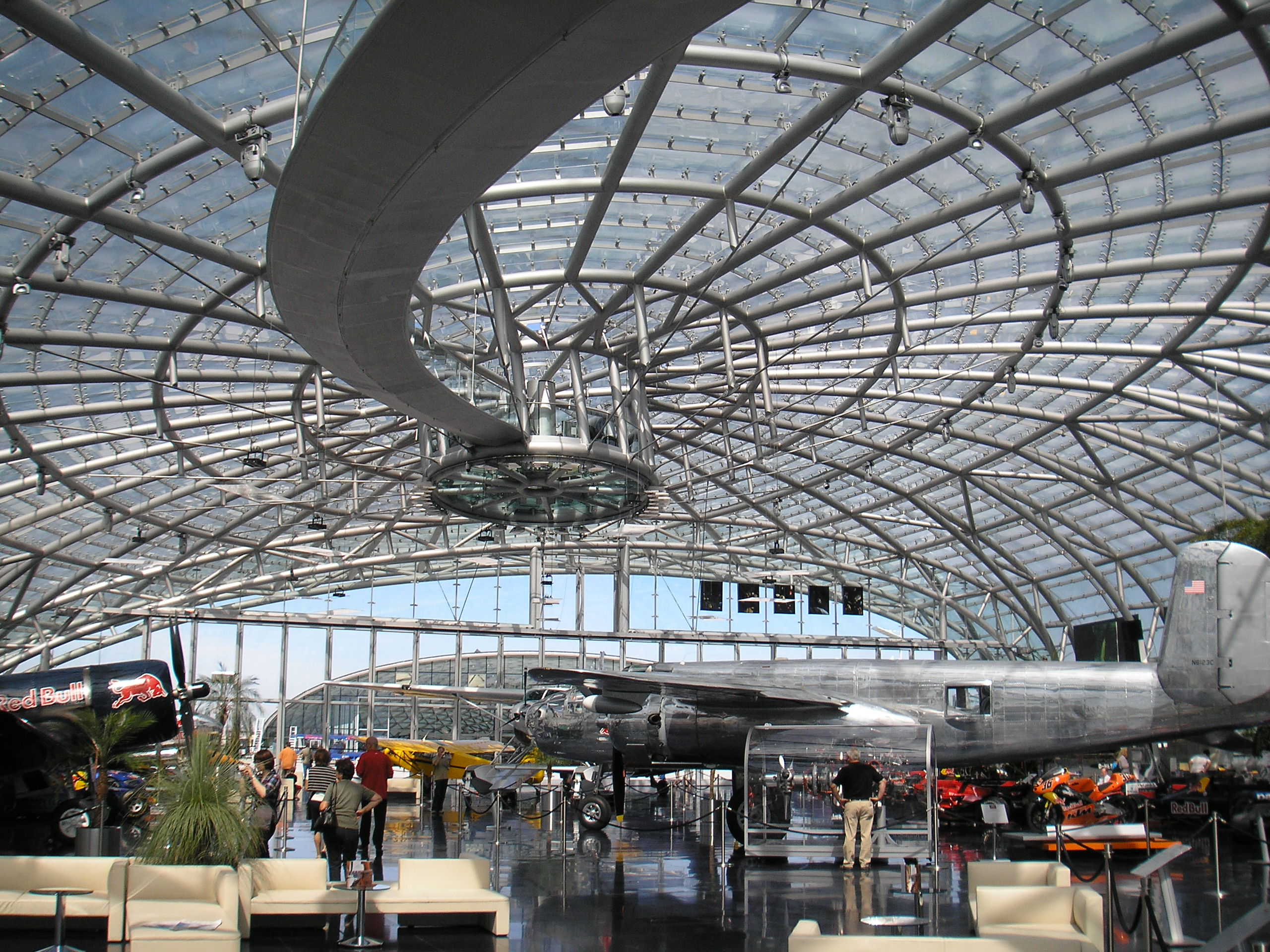 Indoor view of the Hangar-7 at Salzburg Airport